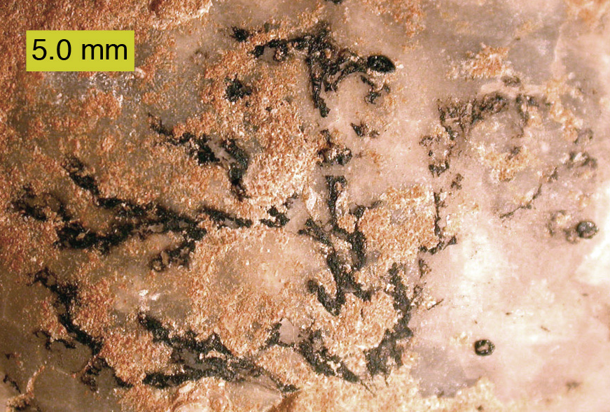 Thallograptus sphaericola attached to the cystoid Echinosphaerites aurantium; Ordovician of Estonia.